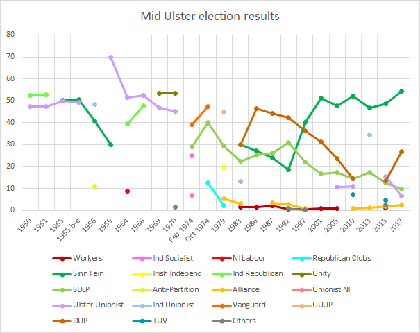 Mid Ulster election results